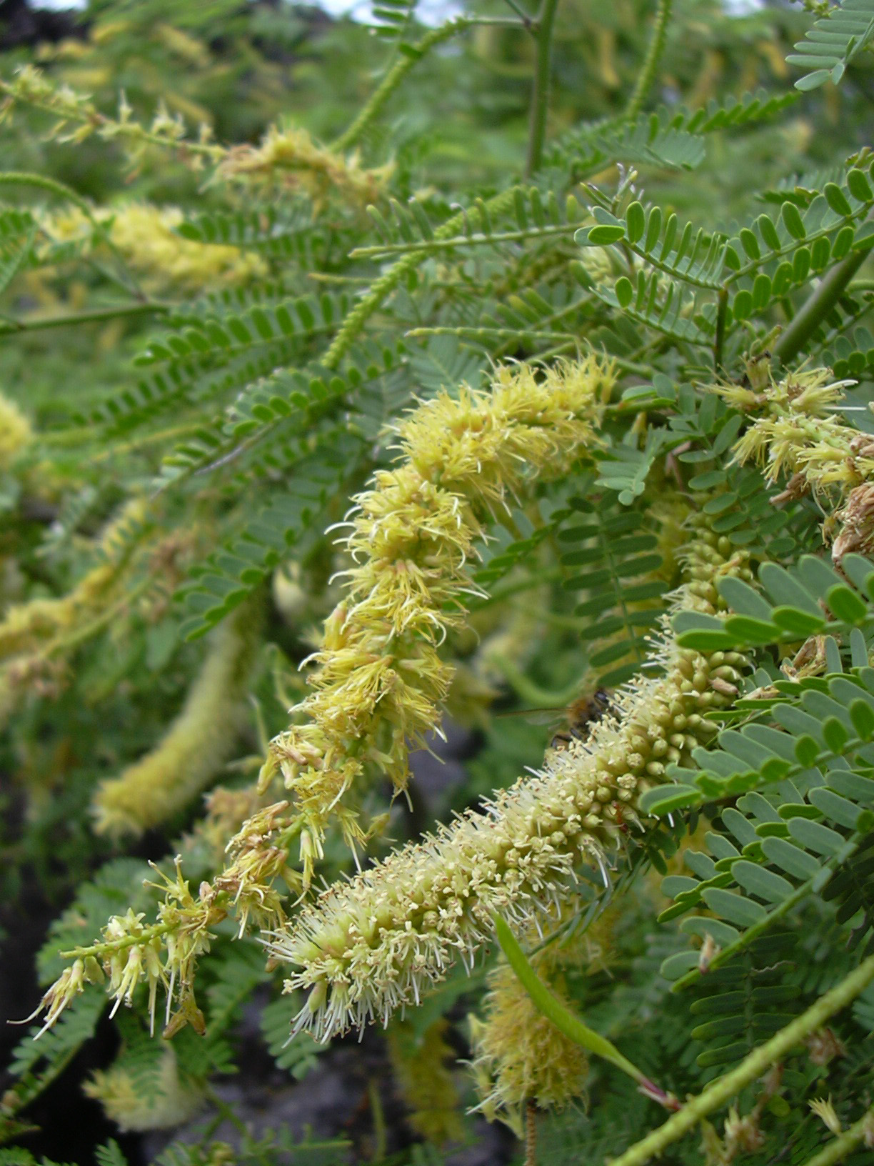 Prosopis pallida (flowers). Location: Maui, LaPerouse